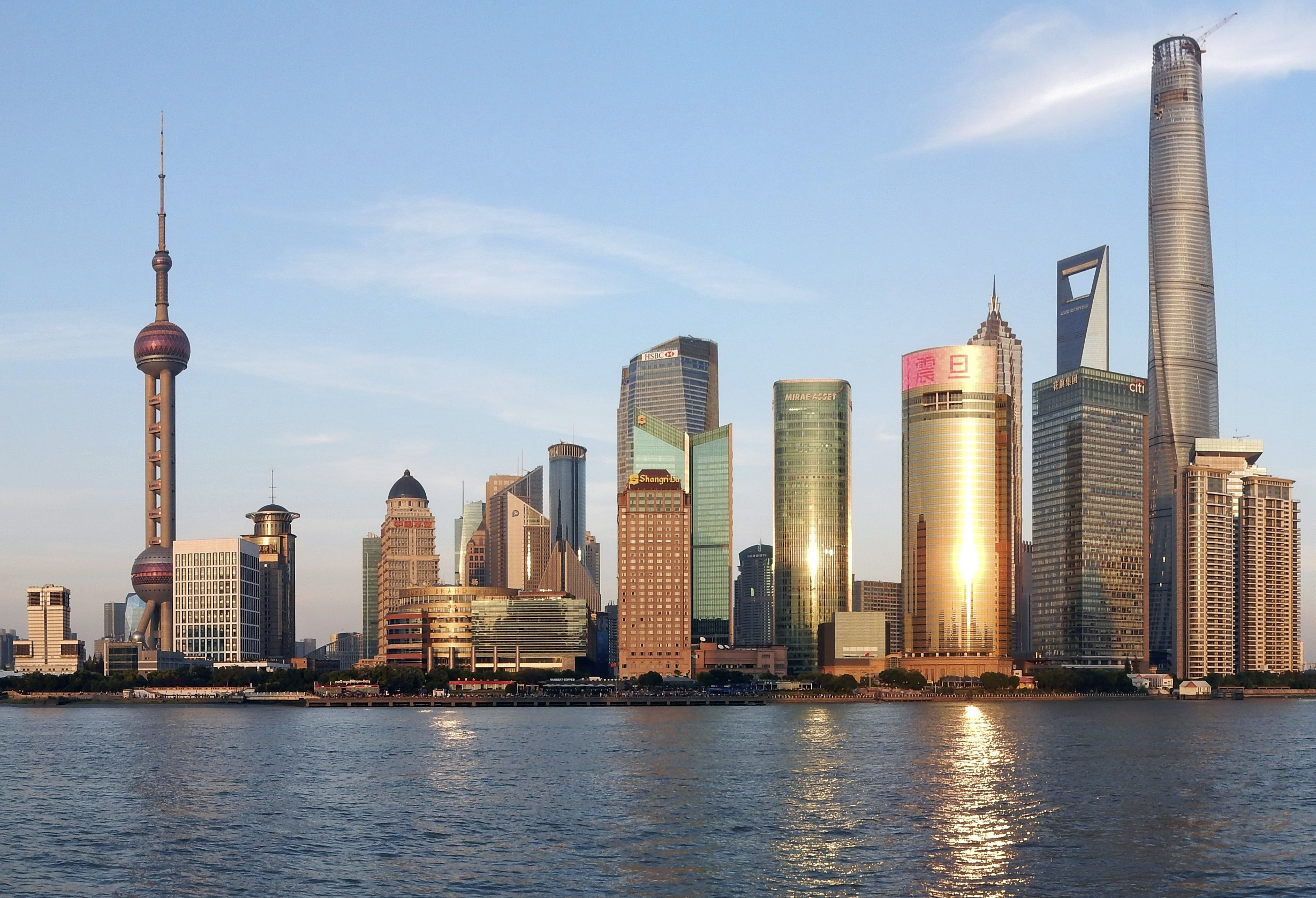 Pudong skyline, Shanghai, China. Panorama stitched from 6 images.